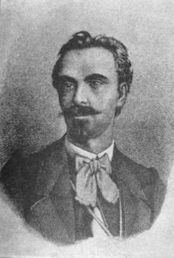 Nicolae Nicoleanu (1833 - 1871)